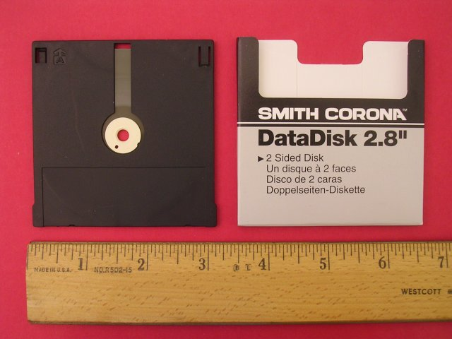 I took this picture of a Smith Corona DataDisk 2.8" 2 Sided Diskette which came from a CoronaPrint S61838 package of two disks. Manufactured in Germany, this disk is intended to work with Smith Corona PWP's, model numbers 3,5,6, 6BL, 7, X15,X25, 40, 50LT, 55D, 60, 65D, 75D, 80, 85DLT, 100, 100C, 220, 230, 250, 270LT, 300, 350, 355, 960, 990, 2000, 2100, 3000, 3100, 5000, 5100, 7000LT, DeVille 3, DeVille 300, Mark X, Mark XXX, Mark XL LT. The S61838 packaging indicates the disks are made in Germany or Japan and carries a UPC of 0-36652-61837-9. This package of two disks was found at a Goodwill thrift (second-hand) store in Tyler, TX in January 2006.